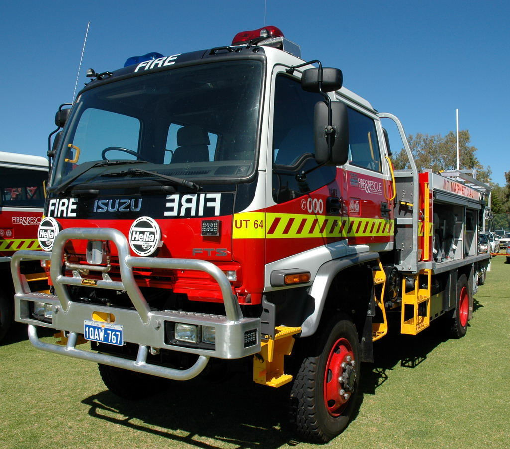 FESA Isuzu 3.4 urban tanker - Mt Magnet. With "FIRE" in mirror writing ("ERIF").